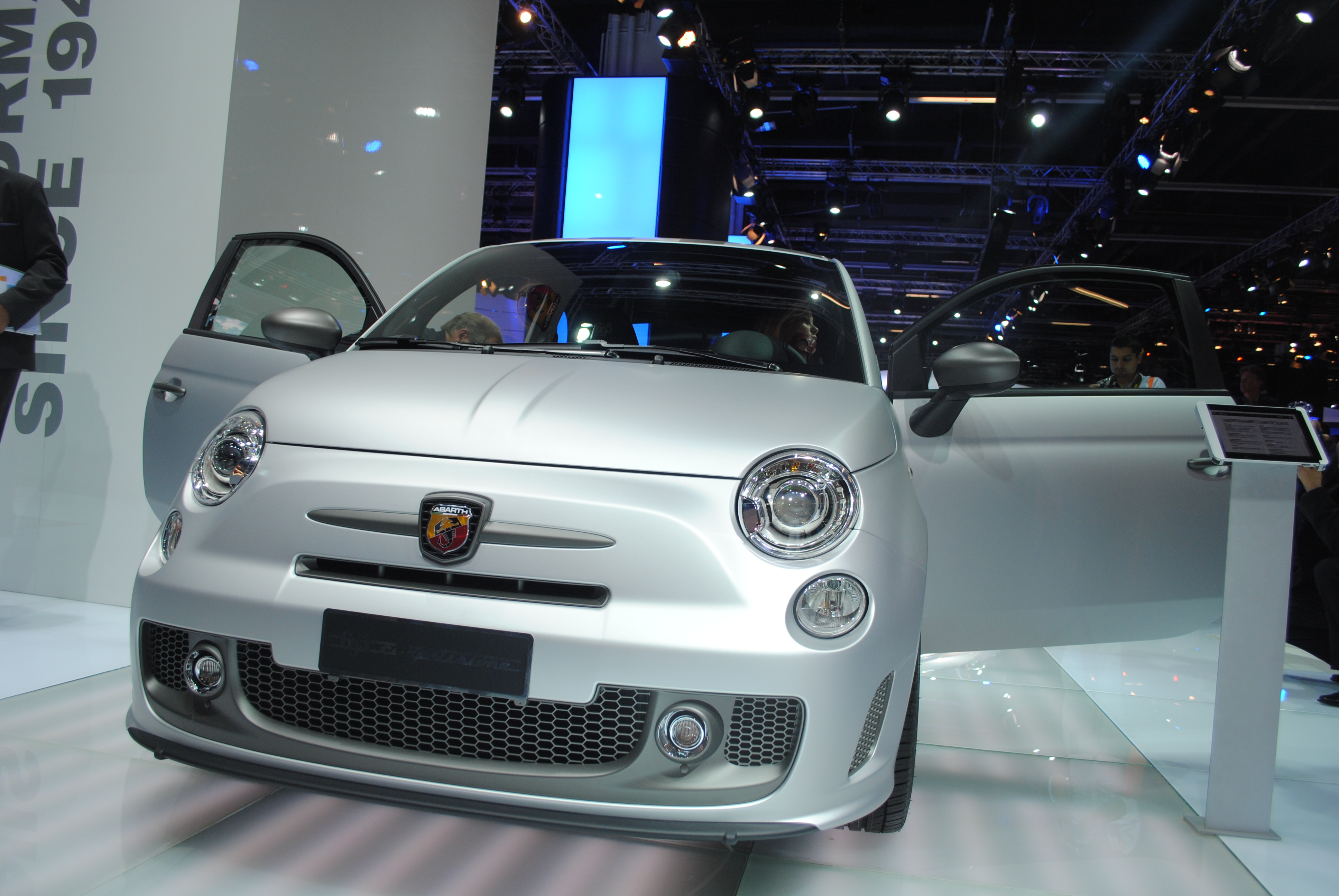 More photos and info